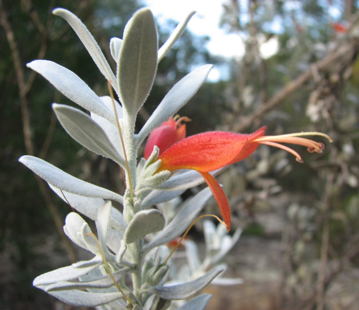 Eremophila glabra 'Murchison Magic' (cultivated, labelled) Maranoa Gardens, Balwyn, Victoria, Australia